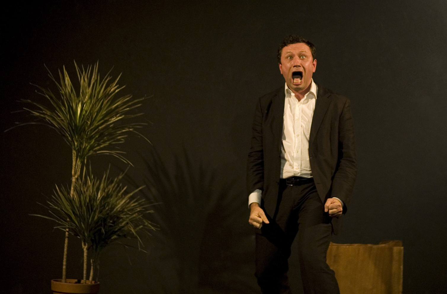 on stage